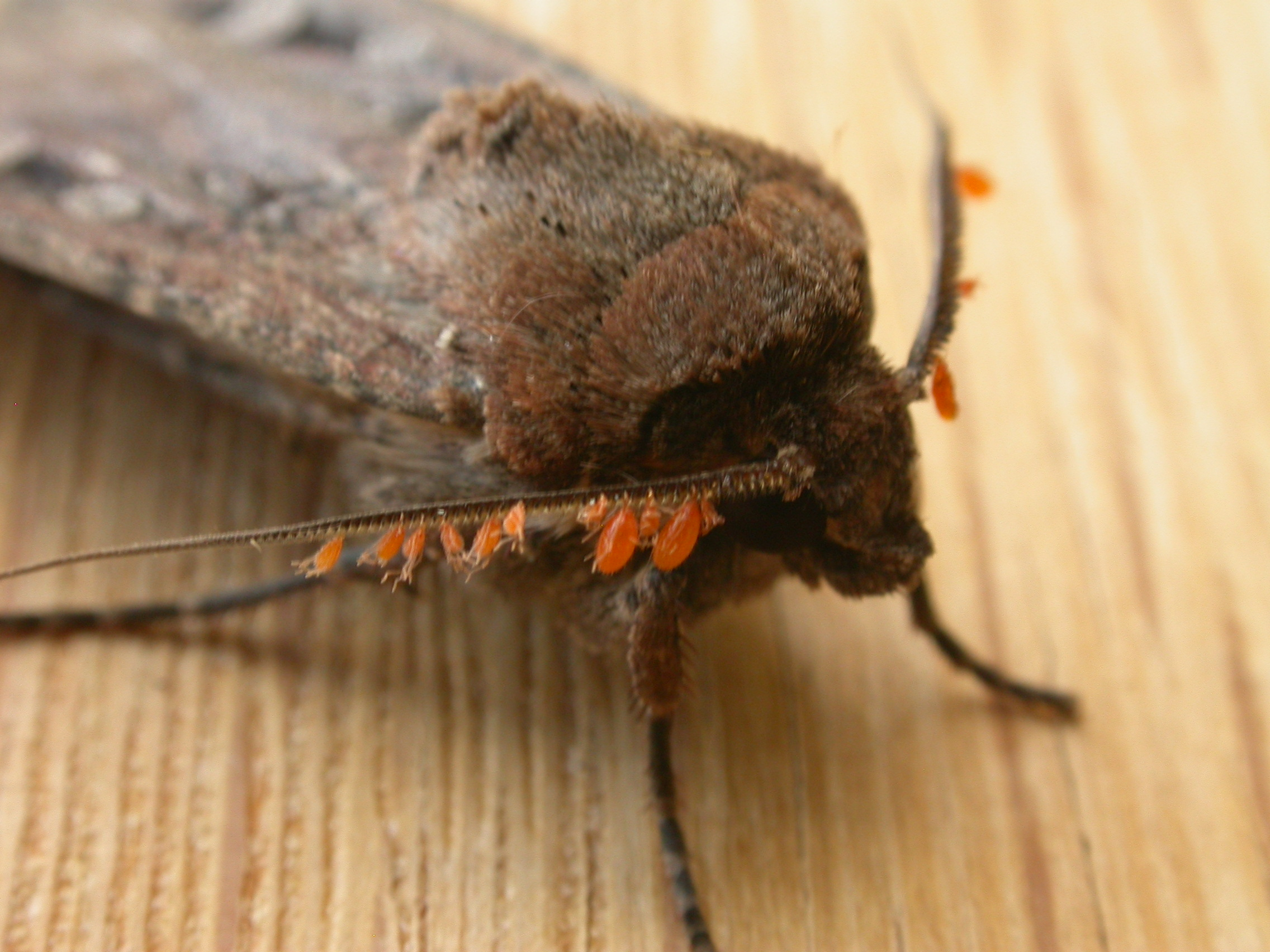 Agrotis infusa (Boisduval, 1832), with antennae apparently infested by mites, presumably of the order Trombidiformes, to MV light, Aranda, ACT, 28/29 December 2008